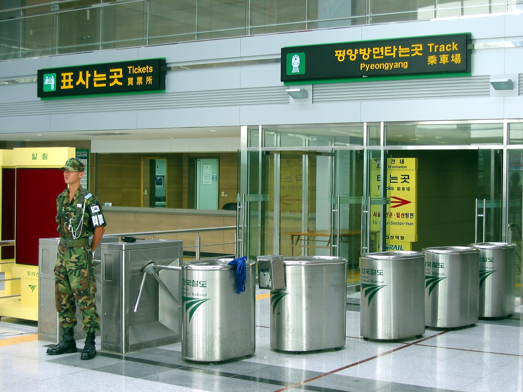 The Dorasan-Station at the frontier between north and south korea